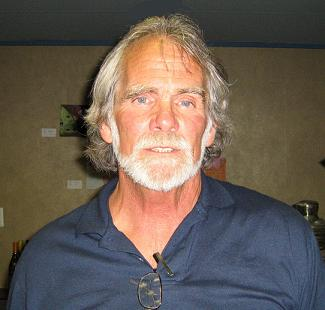 Sf author Michael Shea at The Variety Preview Room in San Francisco